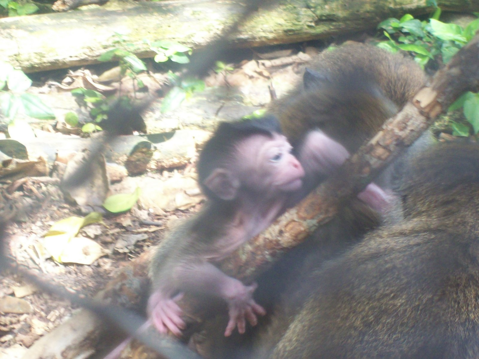 Baby Crab-eating Macaque, Monkey Jungle, Florida